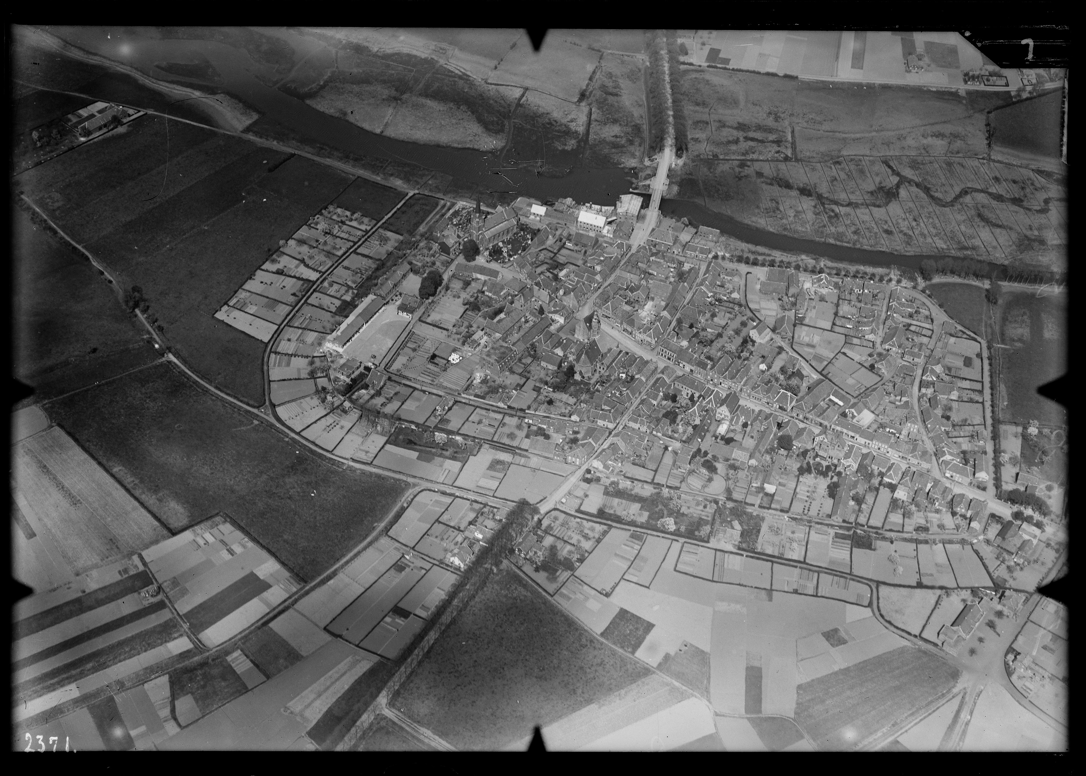 Aerial photograph of Gennep, The Netherlands